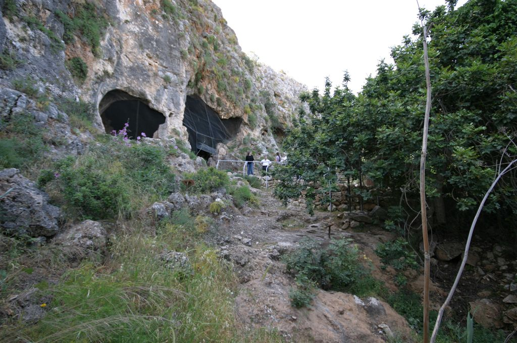 The entrance to el-Wad Cave and Terrace, a prehistoric site in Mount Carmel, Israel